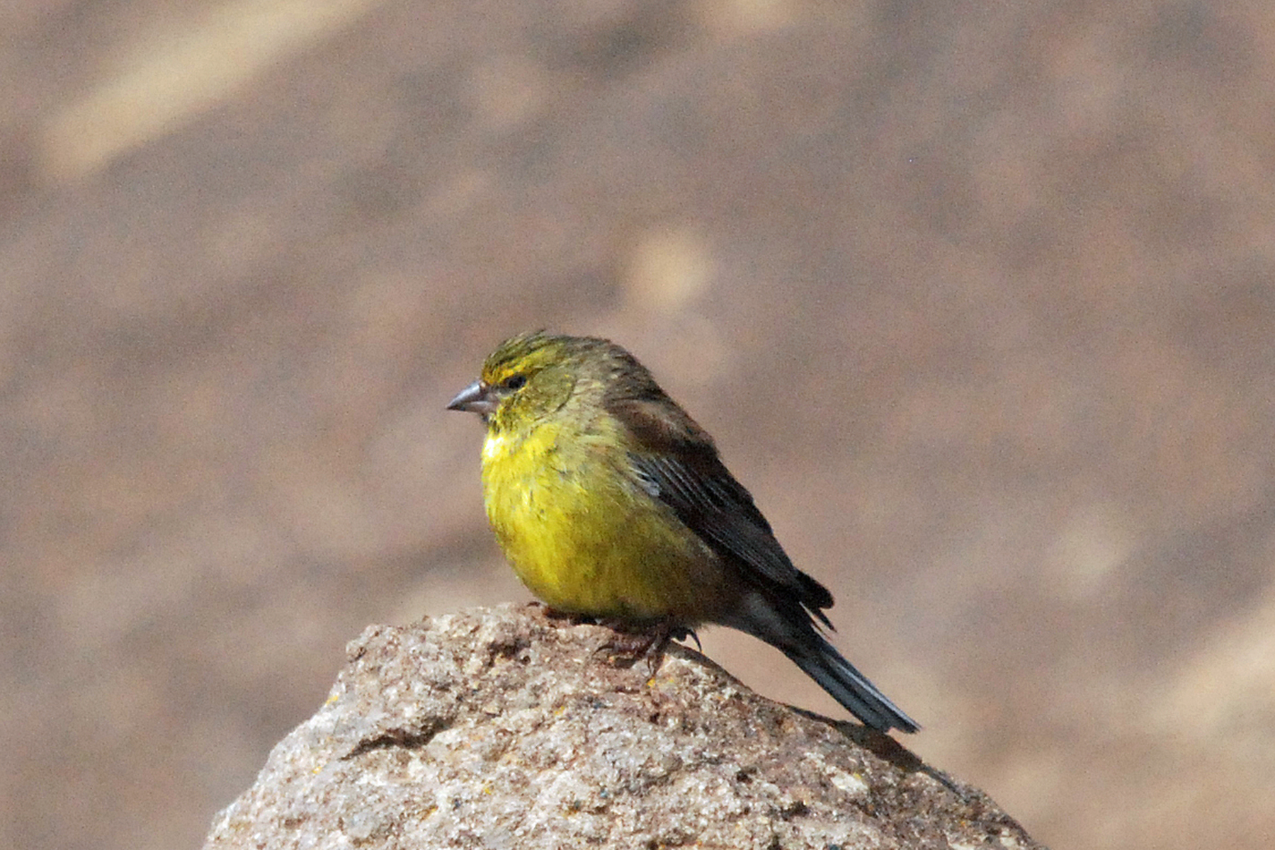 Drakensberg Siskin (Crithagra symonsi), South Africa